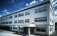 Headquaters Noritake Itron Corp. Ise,Mie,Japan